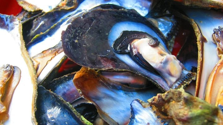 Freshly opened pearl-oyster-type oysters (genus Isognomon) that were harvested in Catbalogan City, the capital of Samar Province in the Philippines, by Cherry Teves